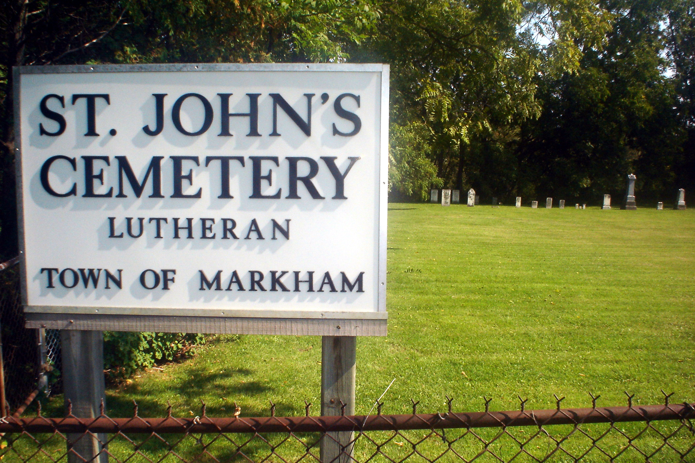 Widescreen view of the sign with the Cemetery to the right. White balance auto-corrected in GIMP.